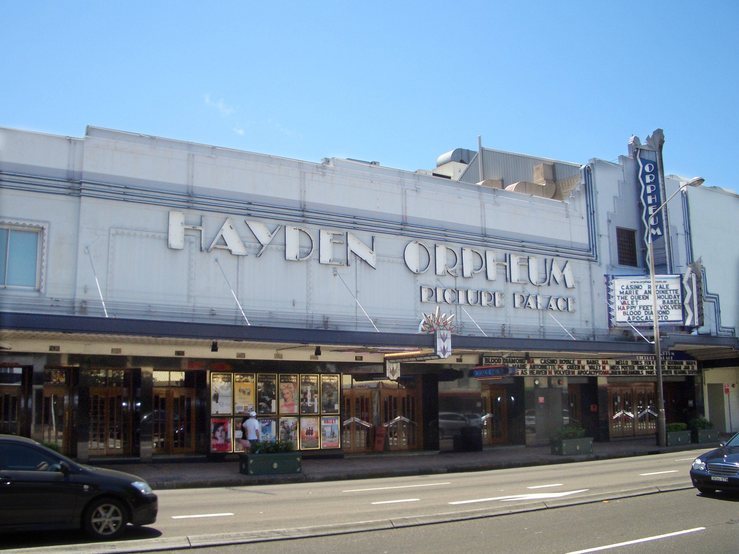 Cremorne